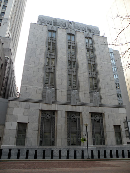 Picture of the Federal Reserve Bank of Cleveland Pittsburgh Branch, located at 717 Grant Street in Downtown Pittsburgh, Pennsylvania, on September 18, 2010. This branch of the Federal Reserve Bank of Cleveland, built from 1930 to 1933 and designed by architects Walker & Weeks, Henry Hornbostel, and Eric Fisher Wood, is on the List of Pittsburgh History and Landmarks Foundation Historic Landmarks. Architectural style: Art Deco.